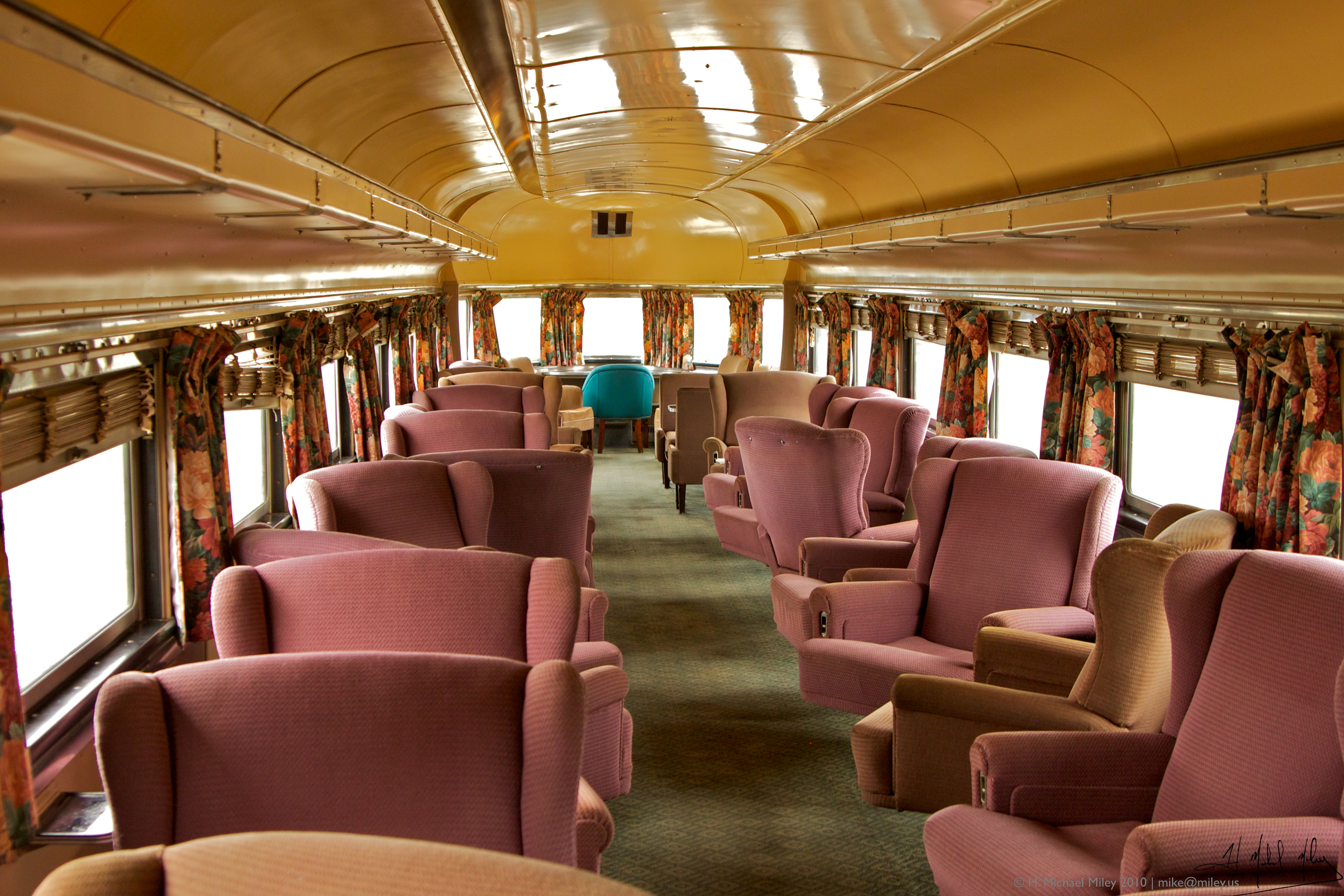 Illinois Railway Museum. This is the refurbished interior of the Nebraska Zephyr observation car Juno from the Train of the Goddesses which is at the Illinois Railway Museum in Union, Illinois.